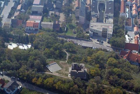 Aerial photography of Tabor ruin, a watchtower probably from 16th century. Neusiedl am See, Austria.